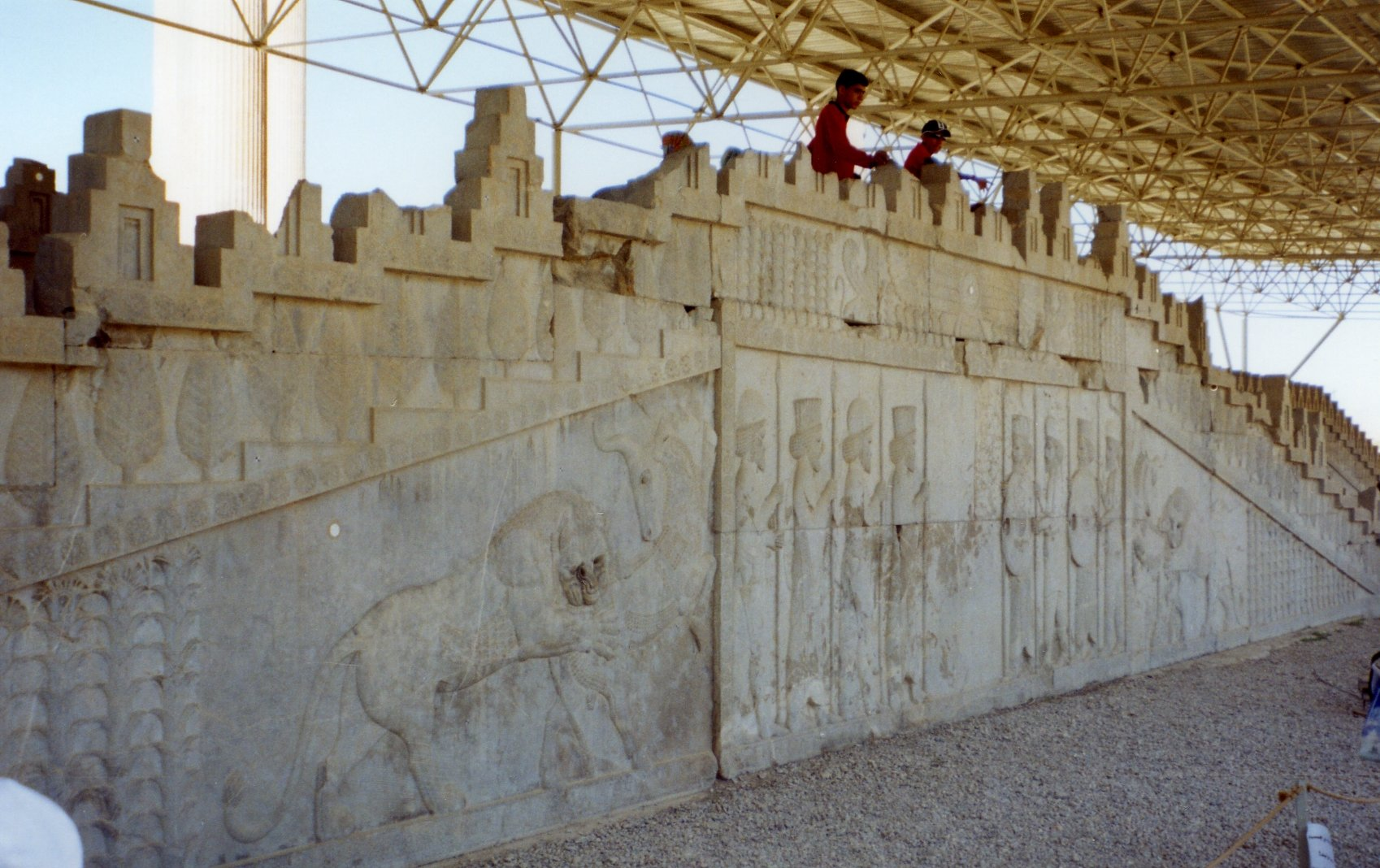 Eastern Stairway of the Apadana Picture Taken by myself Persepolis Iran April 2006